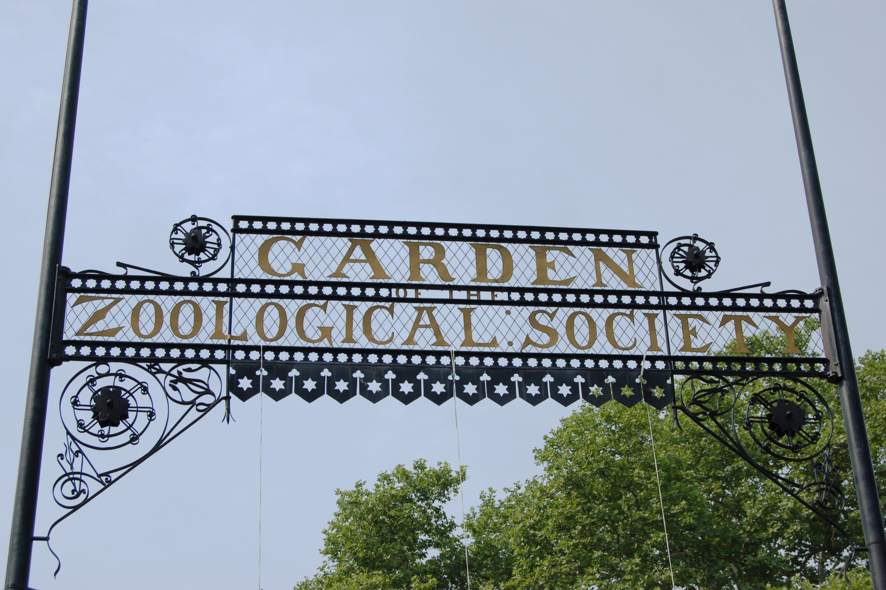 Picture the overhead gate at the entrance to the Philadelphia Zoo.